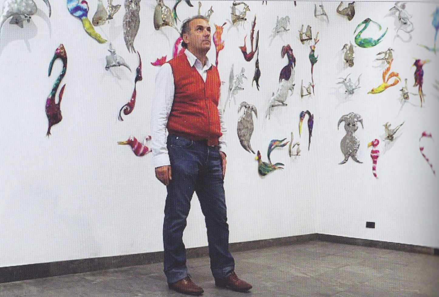 Tamburelli during the «Volario» exhibition's vernissage, Turin, September 18